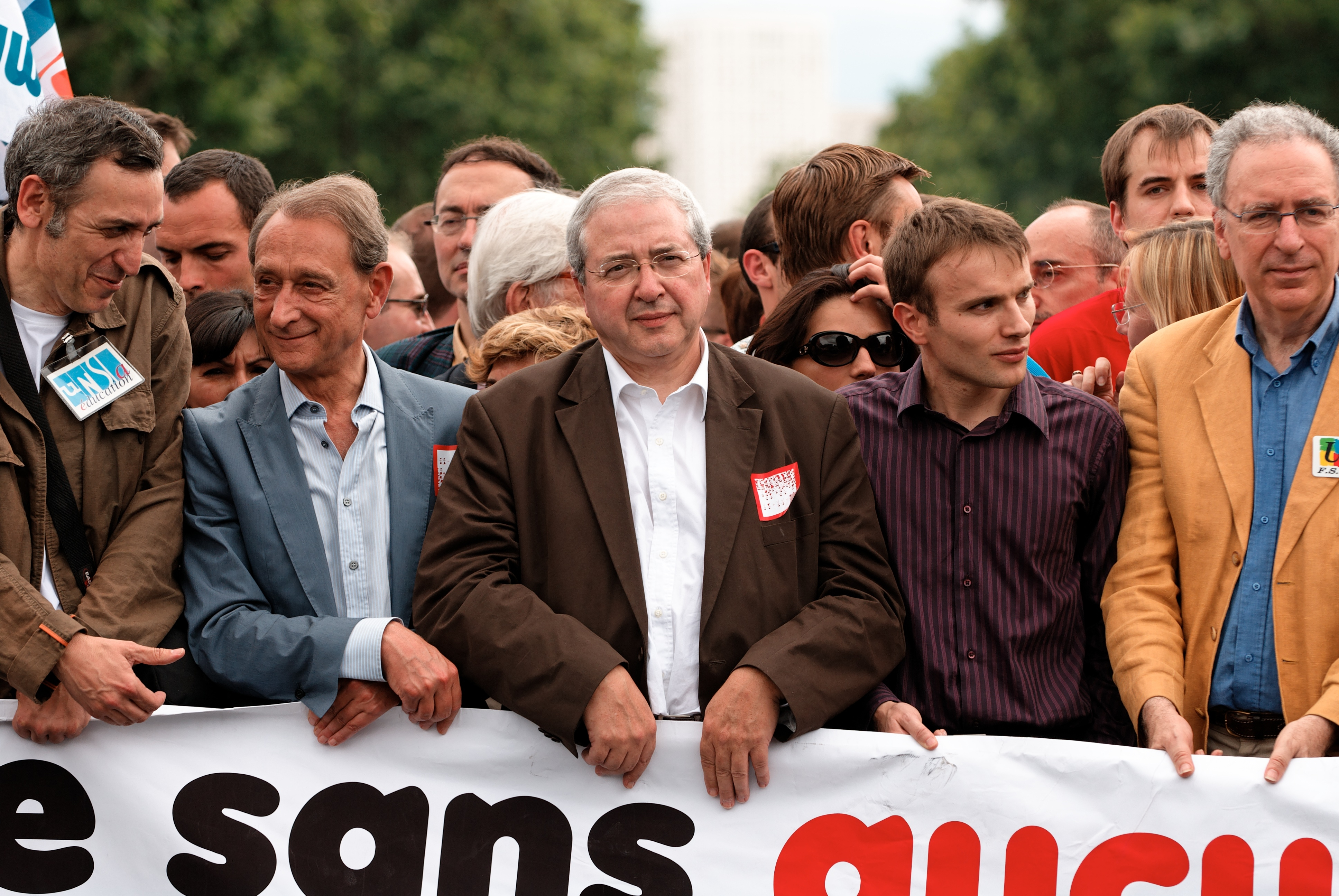 Head of the march, 2008 Gay Pride in Paris. From left to right: Patrick Gonthier, Bertrand Delanoë, Jean-Paul Huchon, Alain Piriou and Gérard Aschieri.